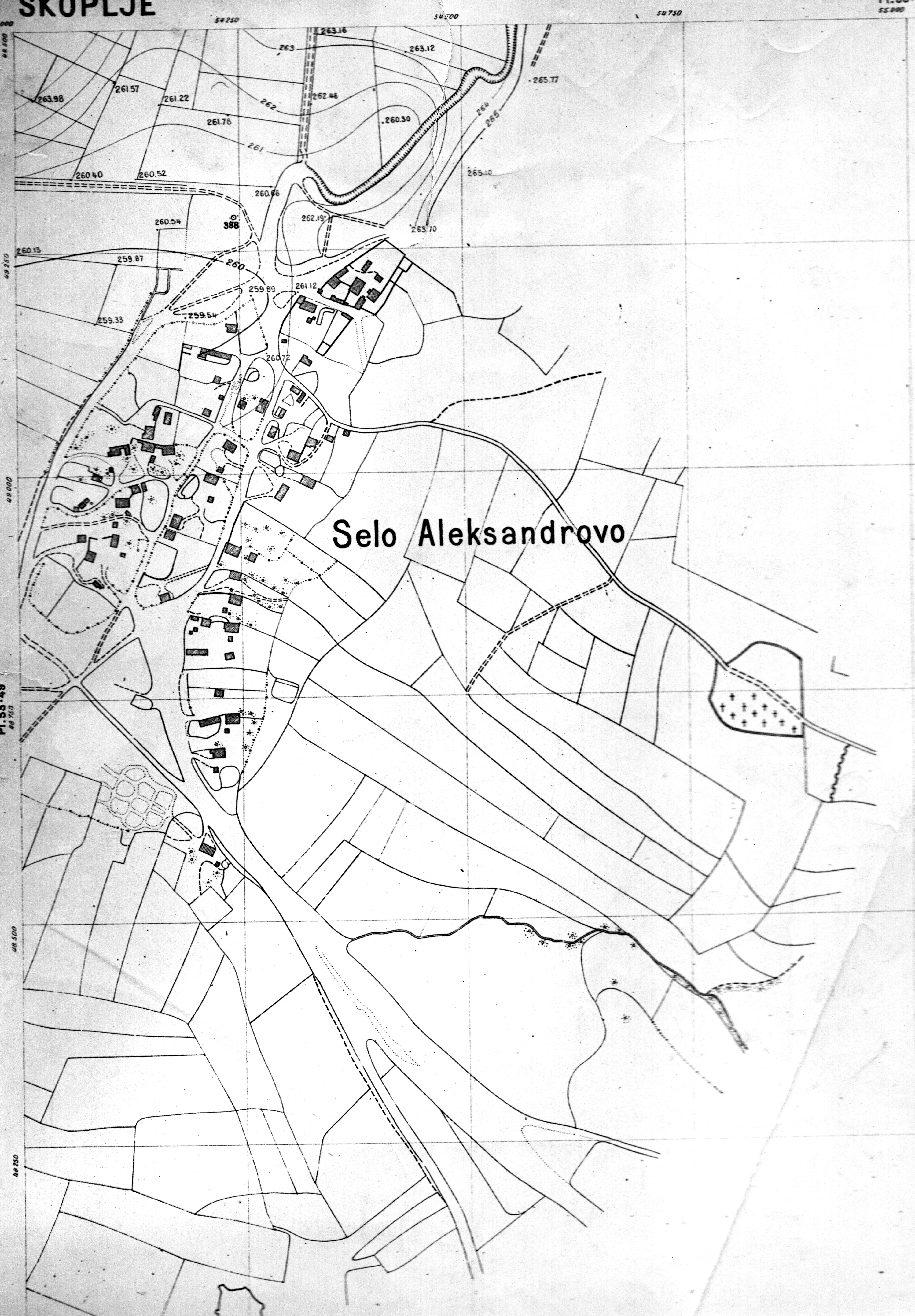 Geodesy map of Miladinovcik, an aero photogrammetric map (1930s). This media file is produced by Wikipedian in Residence in Category:Wikipedian in Residence at DARM in 2017.